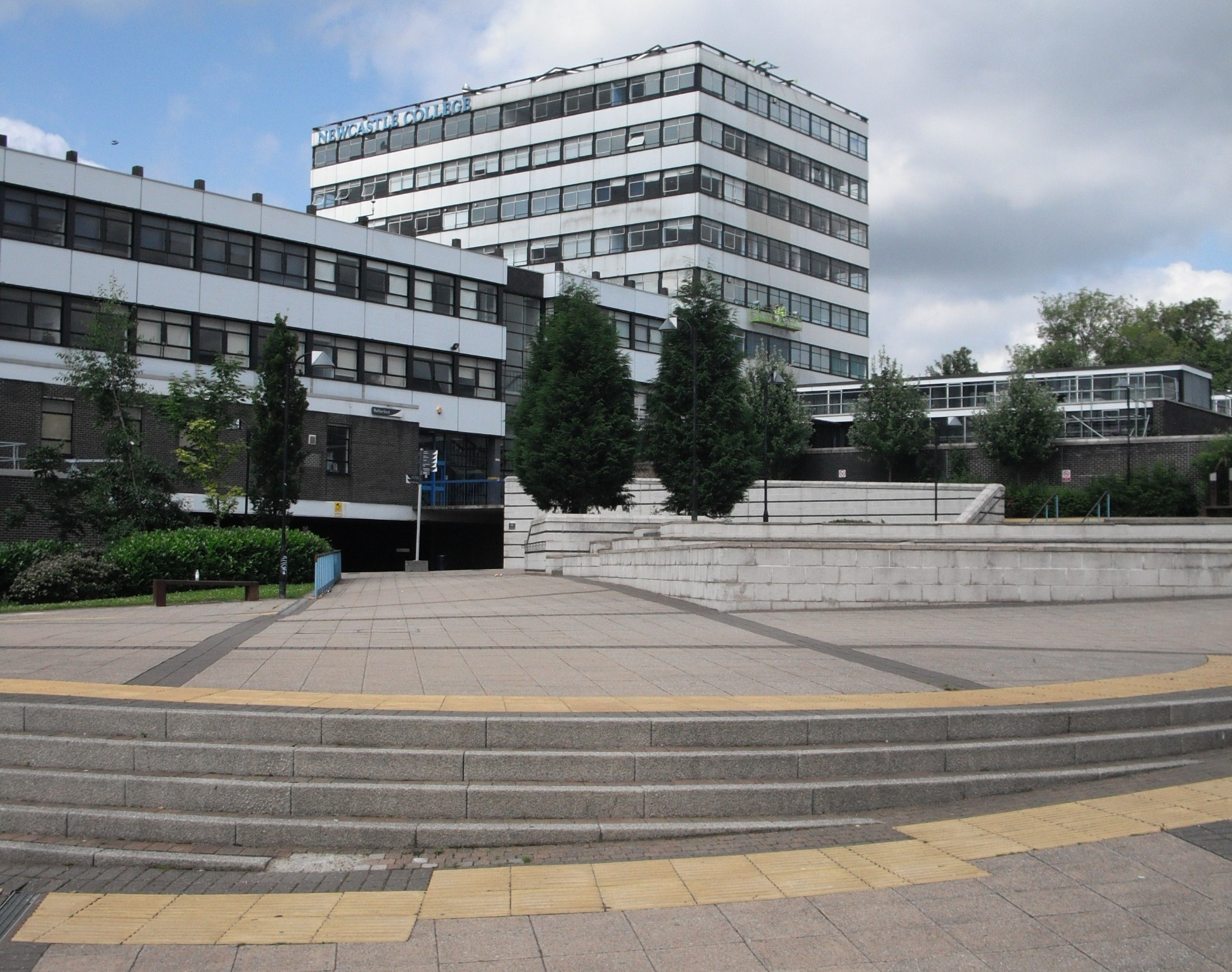 The Rutherford (left) and Trevelyan (tower block) Buildings at Newcastle College, Newcastle upon Tyne, England